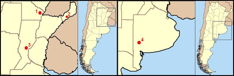 Immigration, France, Argentina